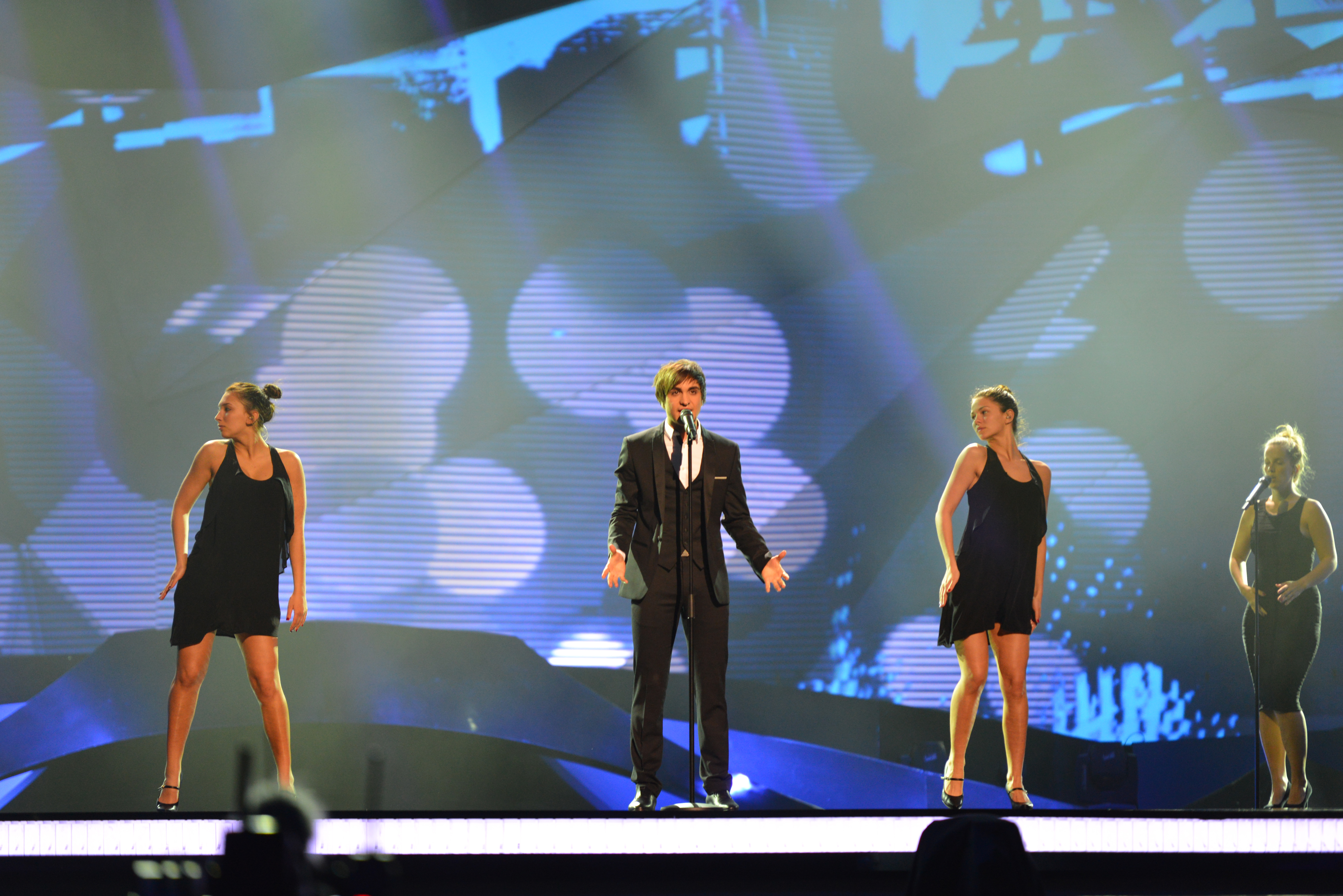 Roberto Bellarosa representing Belgium with the song "Love Kills" during the first dress rehearsal of the first semi final of the Eurovision Song Contest 2013 in Malmö. (Help translate this text)